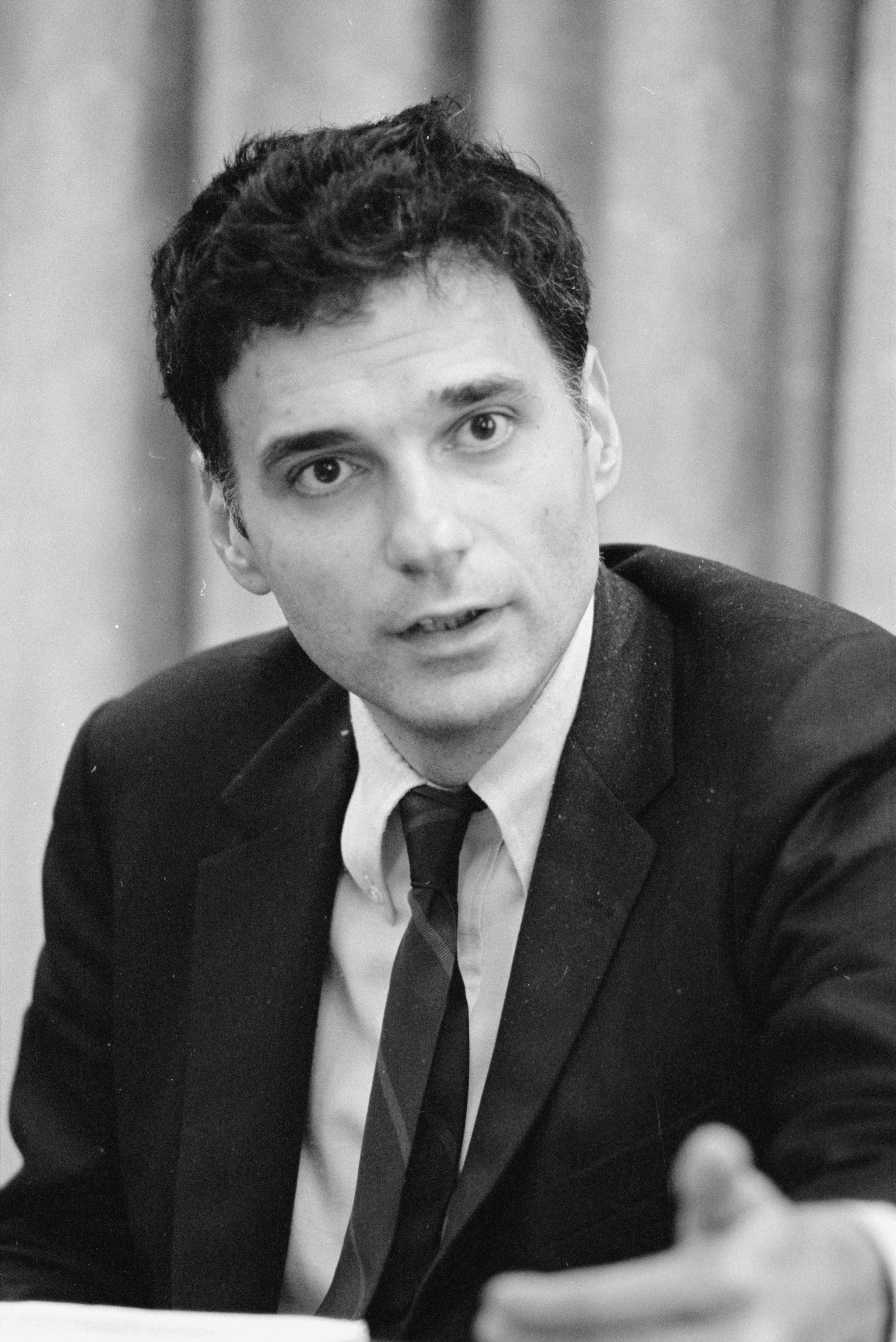 Head-and-shoulders portrait of Ralph Nader